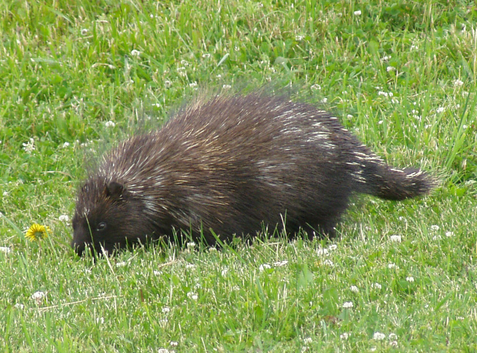 North American porcupine (Erethizon dorsatum) in July 2005 at Forillon National Park in Quebec, Canada.